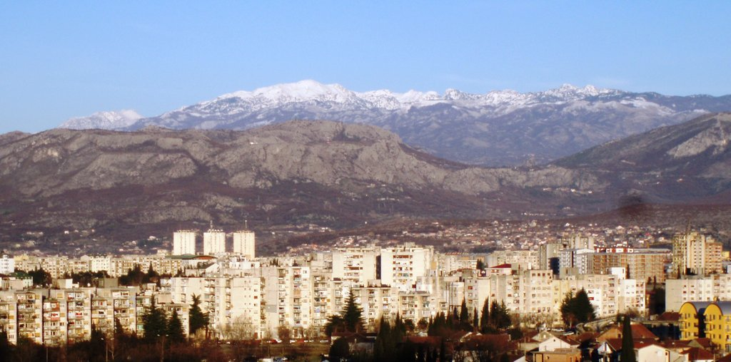 Podgorica